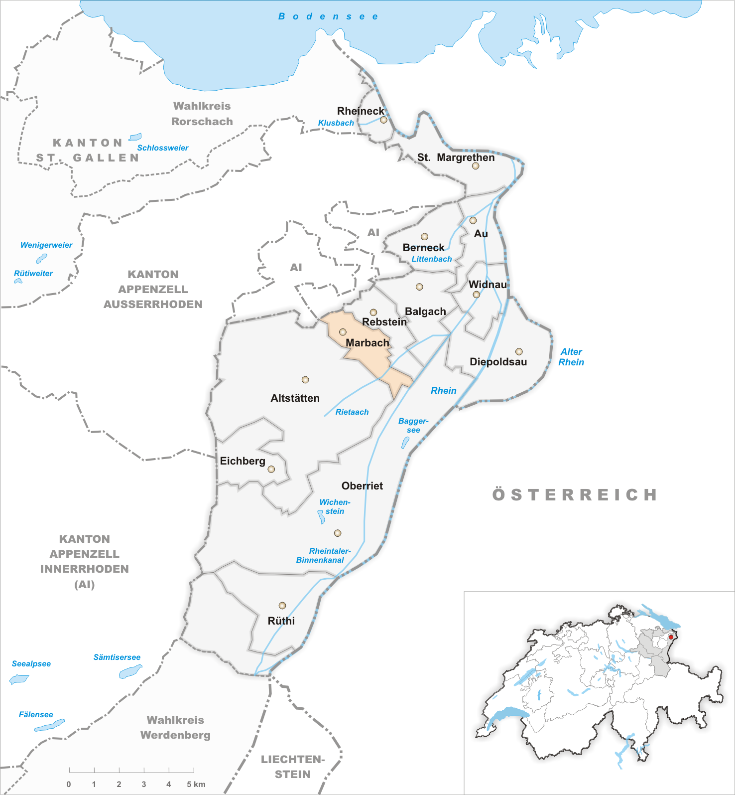 Municipality Marbach